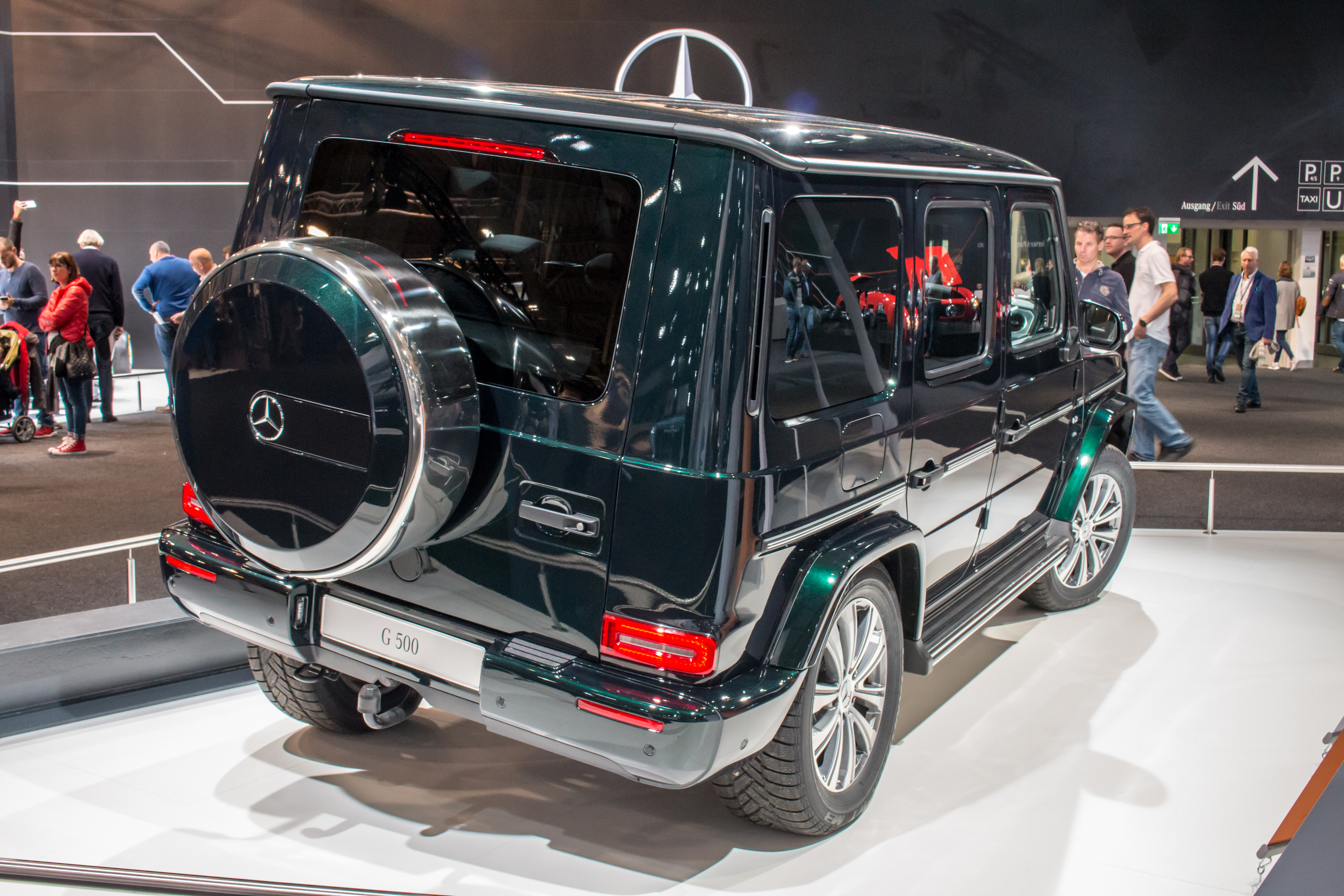 Mercedes-Benz, Techno-Classica 2018, Essen